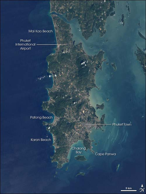 Satellite Images of Phuket before the tsunami strike 2004